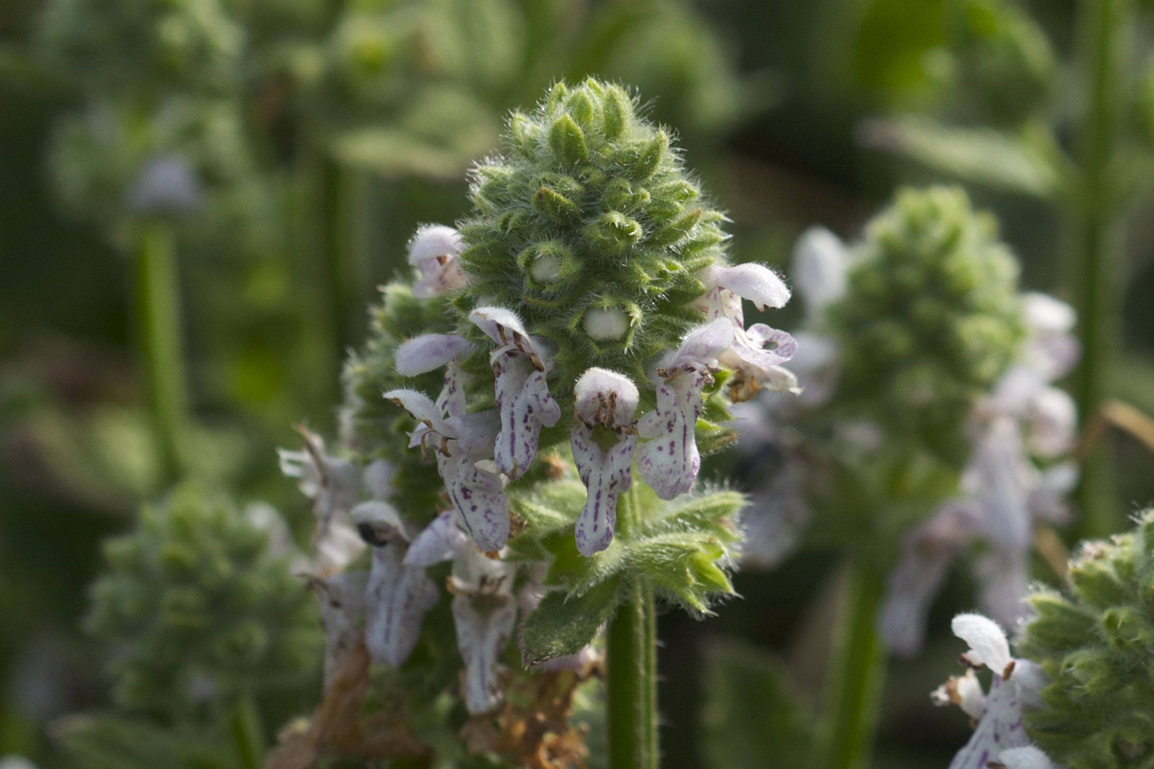 Species from California Common name: Stinking Hedge Nettle Photographed at The John Thomas Howell Wildflower Preserve, Old St. Hilary's Open Space Preserve, Tiburon, California